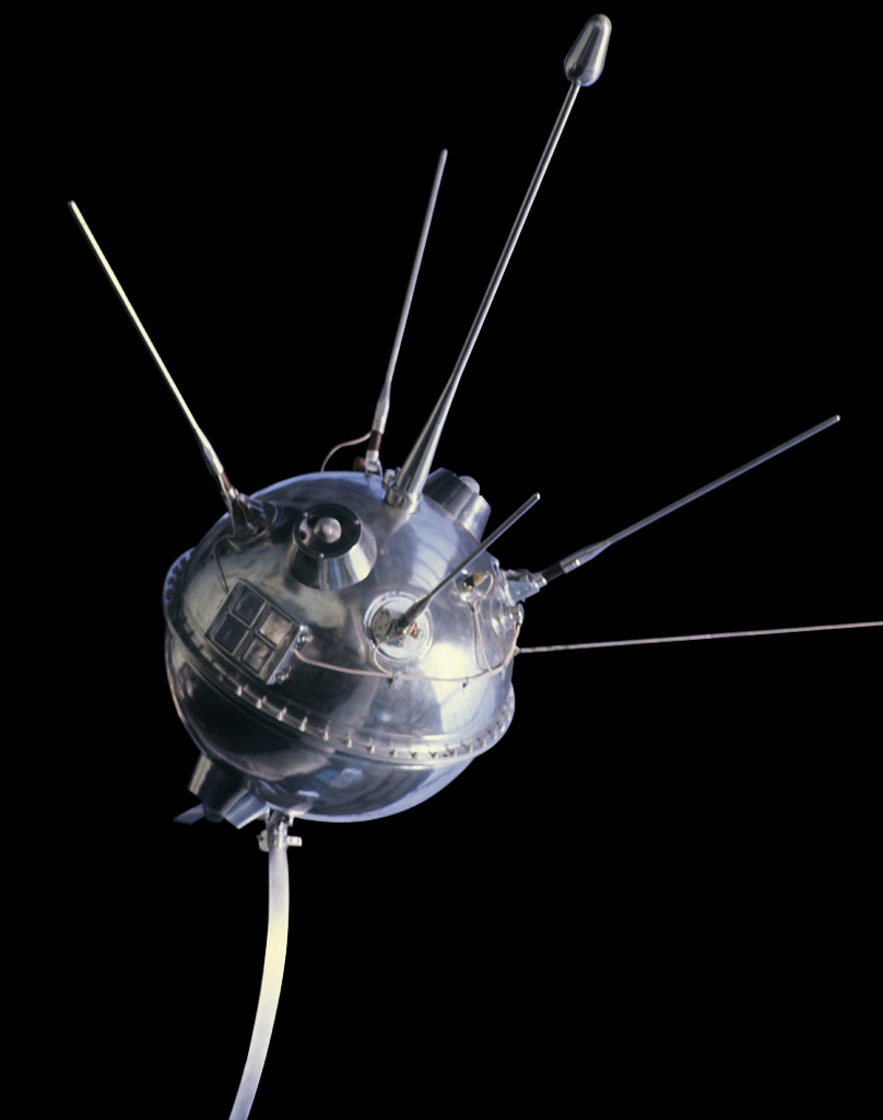 “Interplanetary station Luna 1”. Interplanetary station Luna 1 exhibited in the "Kosmos" pavilion of the Exhibition of Achievements of National Economy of the USSR (VDNKh). *